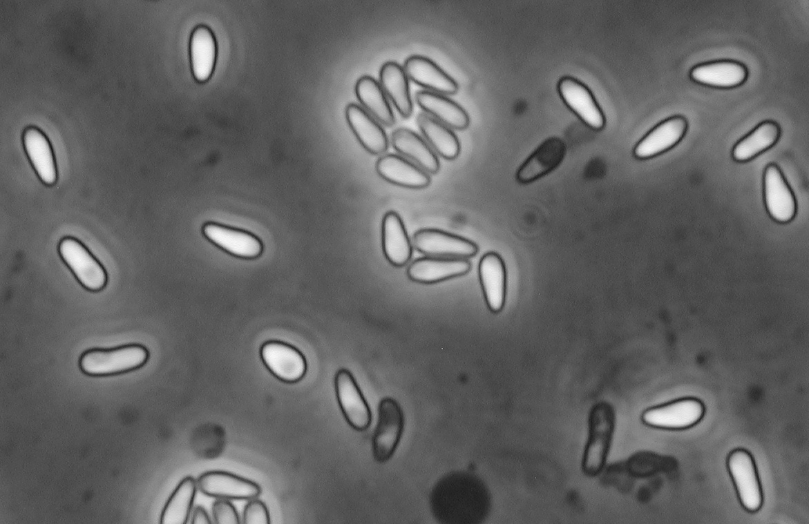 Spores of the microsporidium Hamiltosporidium tvaerminnensis as seen with phase-contrast microscopy. The spores are about 4-6 µm long. Spores are often seen in clusters of 8. The host is Daphnia magna.